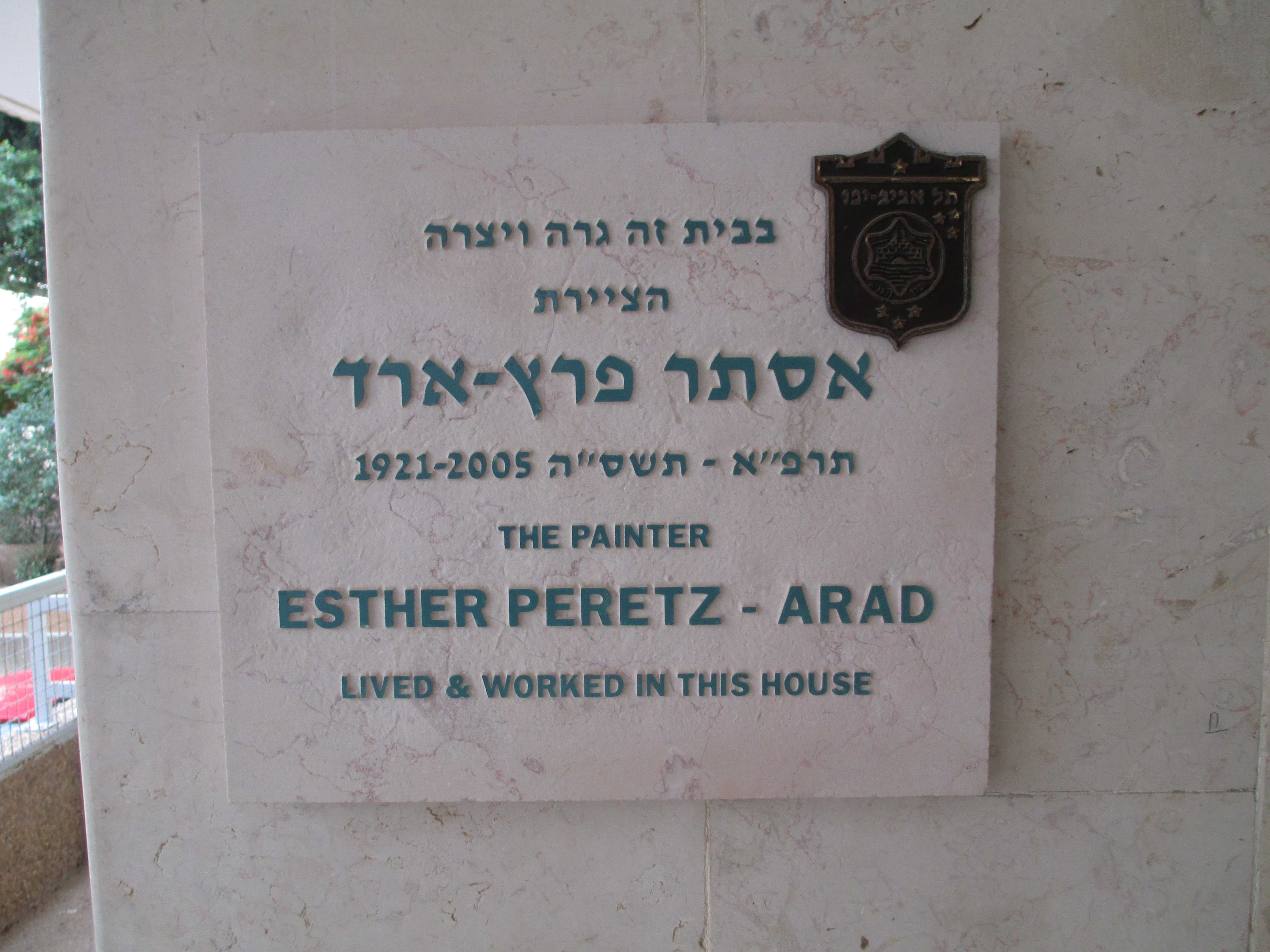 memorial plaque to the paikter esther peretz-arad in tel aviv